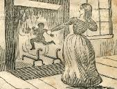 Patty Cannon holding a black child, by the right arm, into a fireplace, from the 1841 book, Narrative and confessions of Lucretia P. Cannon, who was tried, convicted, and sentenced to be hung at Georgetown, Del....